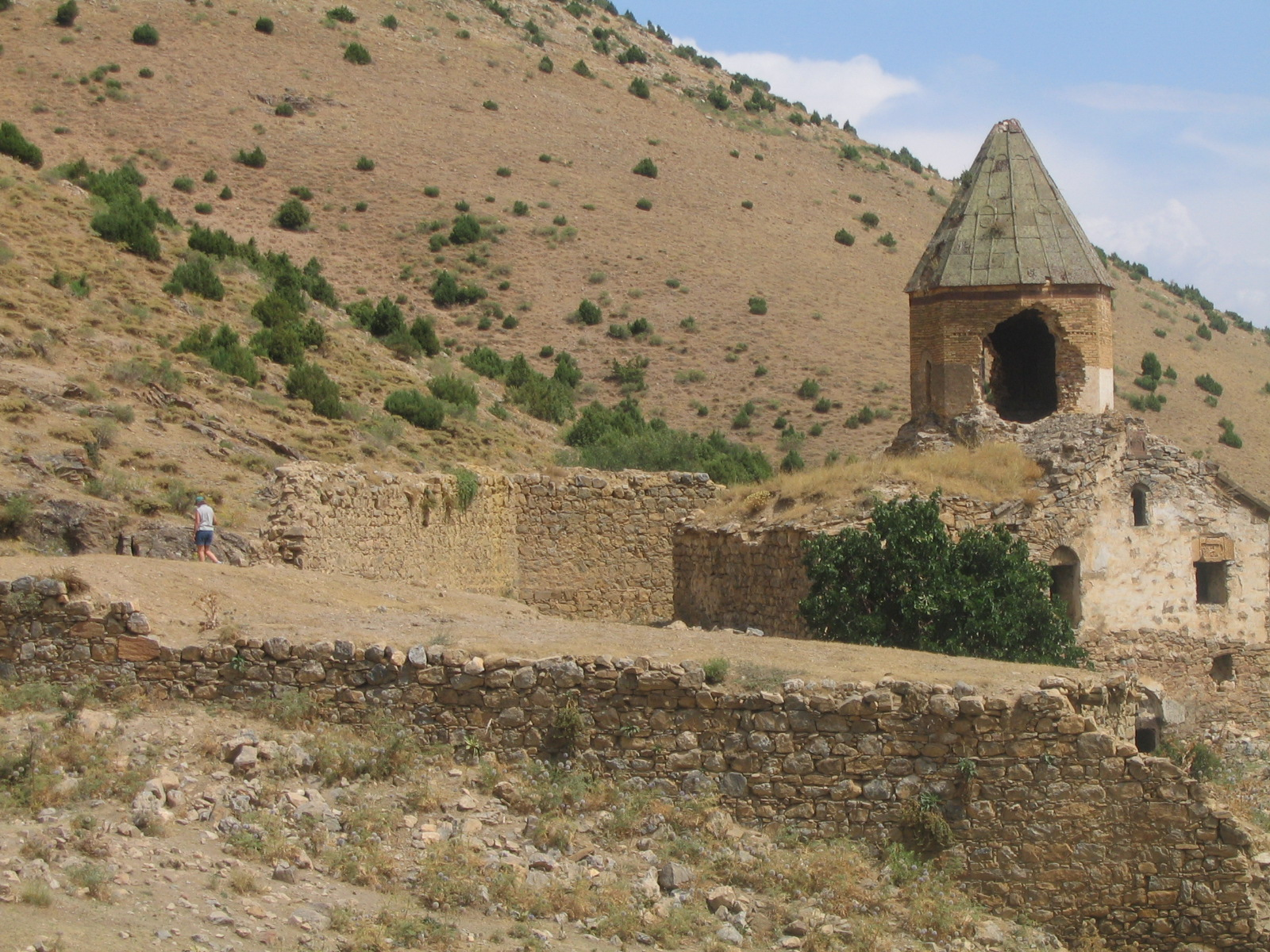 The 10th century Armenian monastery of Karmravank on a hill next to Lake Van, Armenia (Armenian Highland).